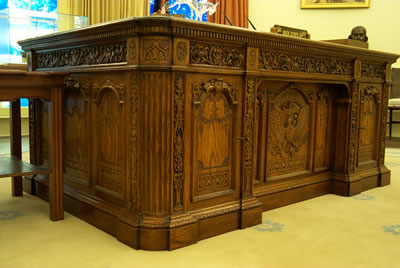 Replica of the Resolute desk located at the Jimmy Carter Library and Museum, National Archives and records Administration. --Source